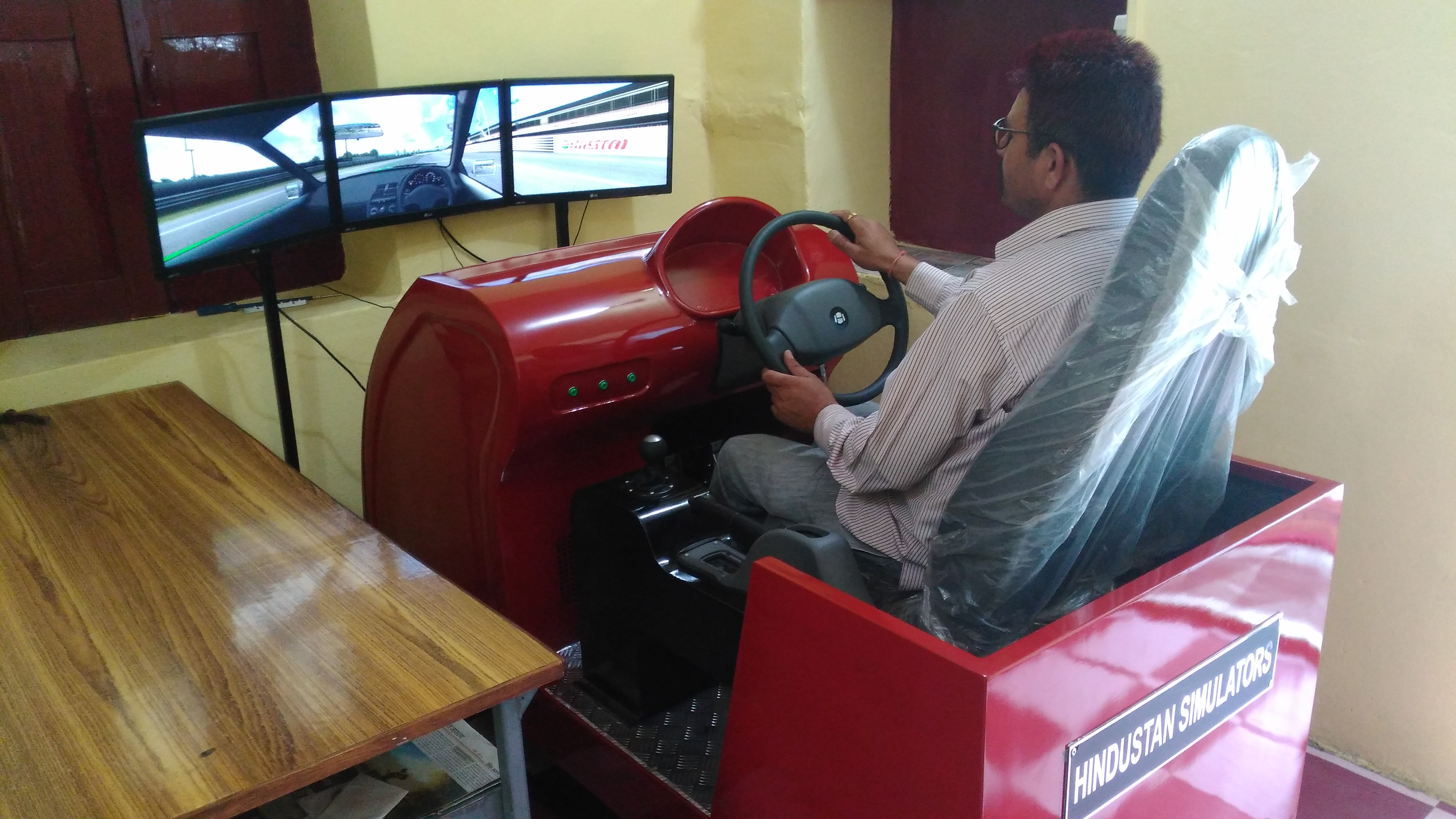 Hindustan Simulators made Advance driving simulator (Delhi) India. which is regarded as the best driving simulator of it's Kind.